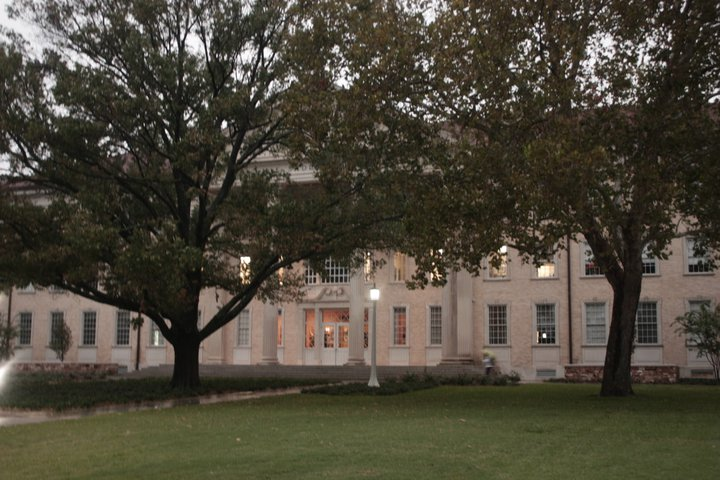 Sadler Building